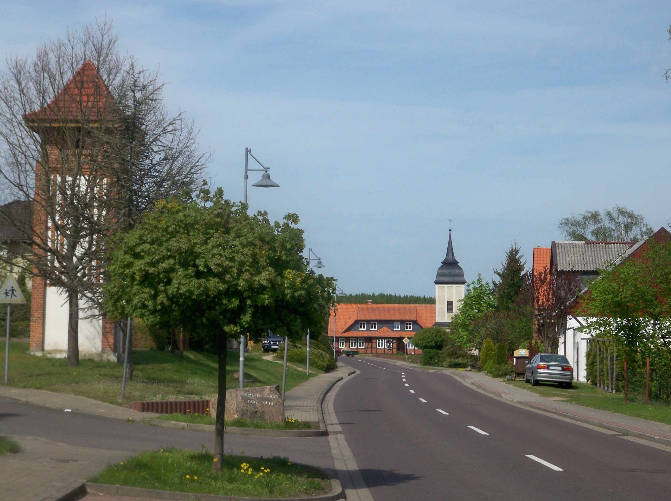 Mellin, Beetzendorf municipality, Saxony-Anhalt, from south